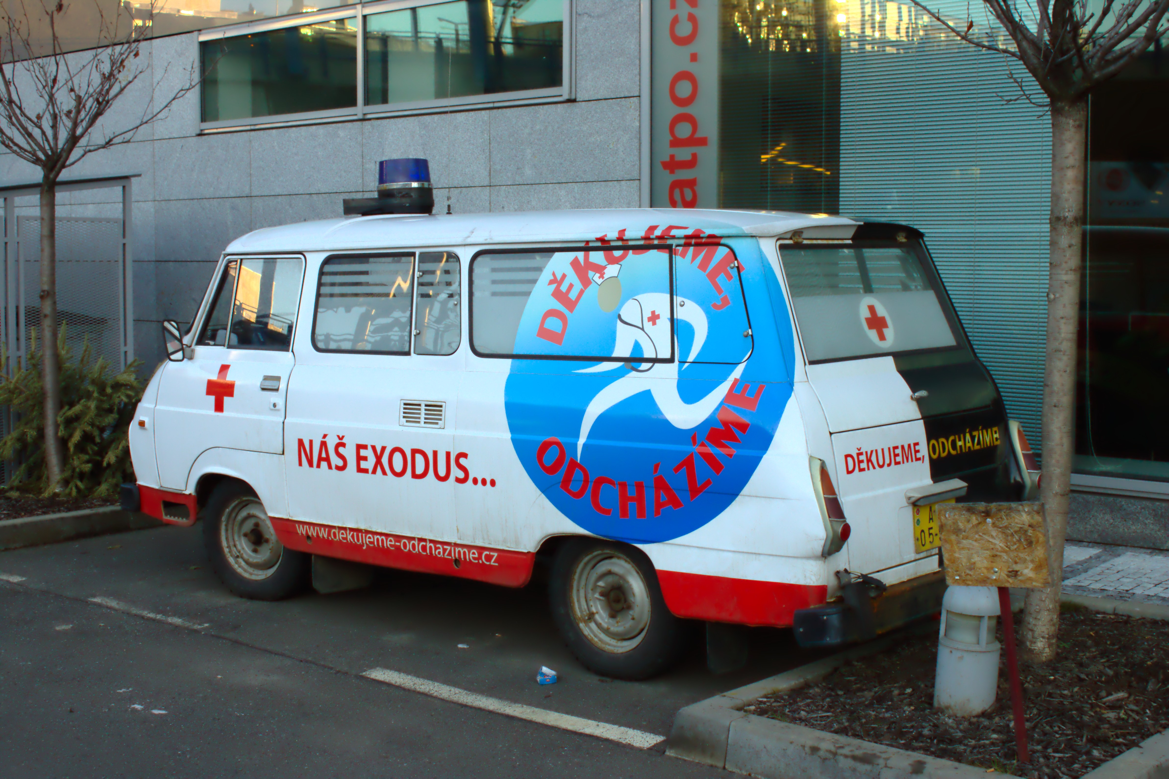 Czech medics' protest ambulance - a symbol of czech medical personnel threating to leave Czech hospitals for Germany starting with New Year 2011; Prague, CZ